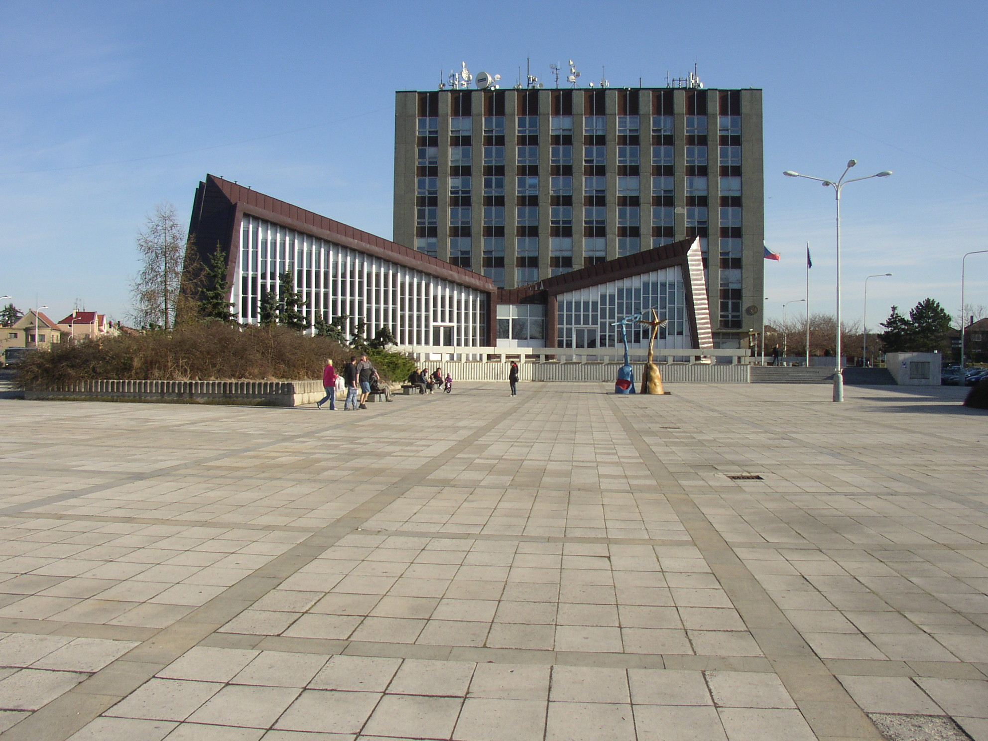 KOKOS building (3105 Sítná Square) in Kladno-Kročehlavy, Kladno District, Central Bohemian Region, Czech Republic. The 1984 building was designed by Václav Hilský as district headquarters of then ruling Communist party. Since 2005 most of the building has been occupied by Faculty of Biomedical Enineering of Czech Technical University. View from NW.